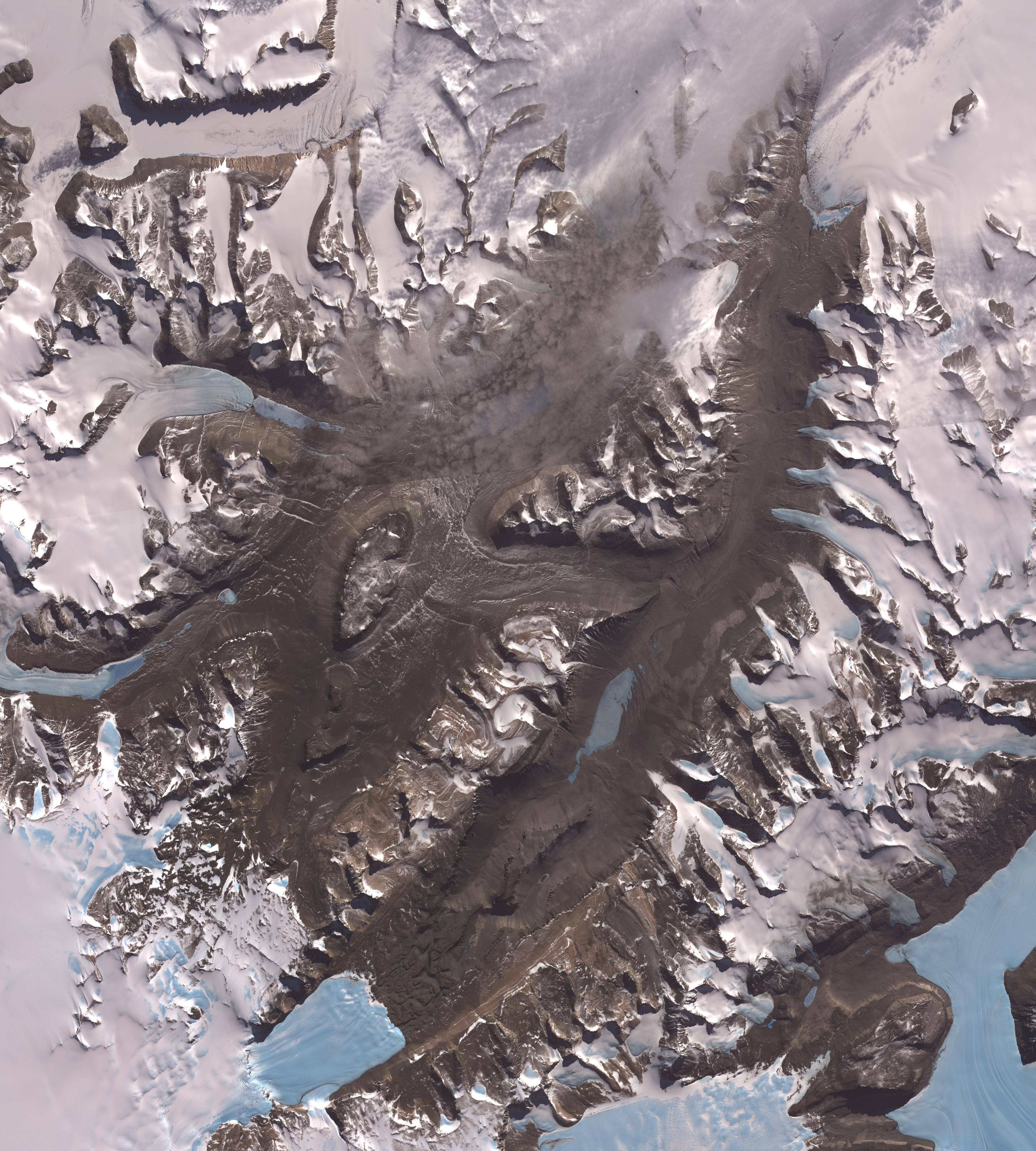 The McMurdo Dry Valleys are a row of valleys west of McMurdo Sound, Antarctica, so named because of their extremely low humidity and lack of snow and ice cover. Photosynthetic bacteria have been found living in the relatively moist interior of rocks. Scientists consider the Dry Valleys to be the closest of any terrestrial environment to Mars. With its 14 spectral bands from the visible to the thermal infra-red wavelength region and its high spatial resolution of about 50 to 300 feet, ASTER images Earth to map and monitor the changing surface of our planet. ASTER is one of five Earth-observing instruments launched Dec. 18, 1999, on NASA's Terra satellite. The instrument was built by Japan's Ministry of Economy, Trade and Industry. A joint U.S./Japan science team is responsible for validation and calibration of the instrument and the data products. The broad spectral coverage and high spectral resolution of ASTER provides scientists with critical information for surface mapping and monitoring of dynamic conditions and temporal change.